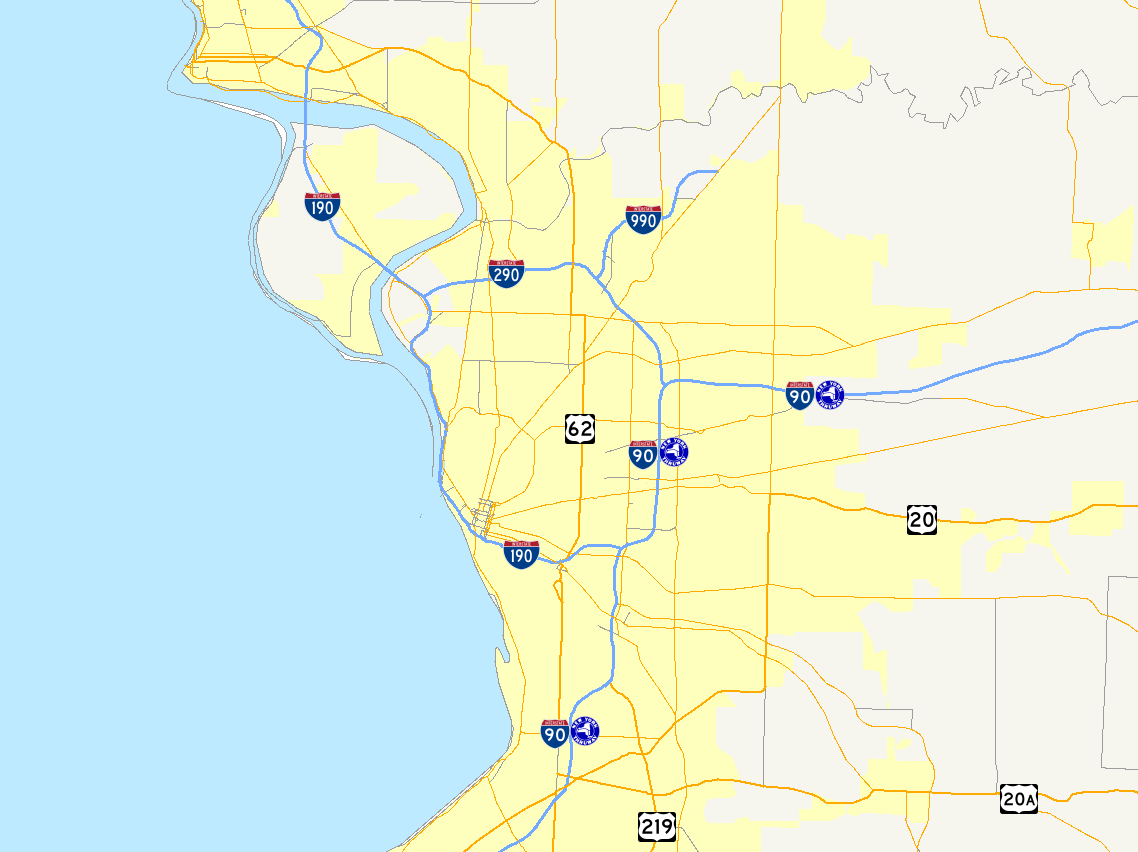 Map of road system of Buffalo, New York